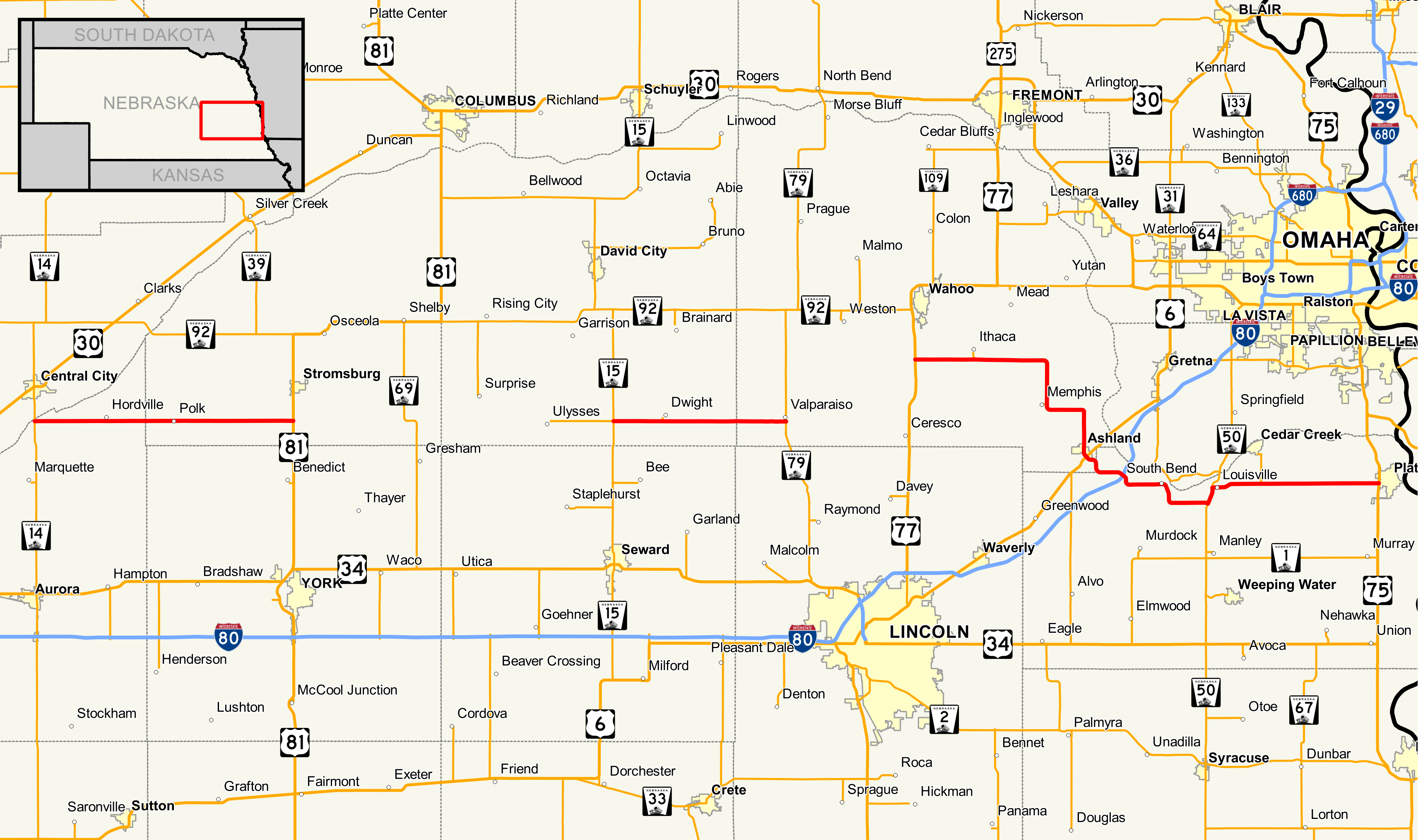 Map of Nebraska Highway 66 Data Sources: Nebraska Highways - - Dec 2016 Nebraska County Boundaries - - Dec 2016 Nebraska City Boundaries - - Dec 2016 This PNG graphic was created with QGIS